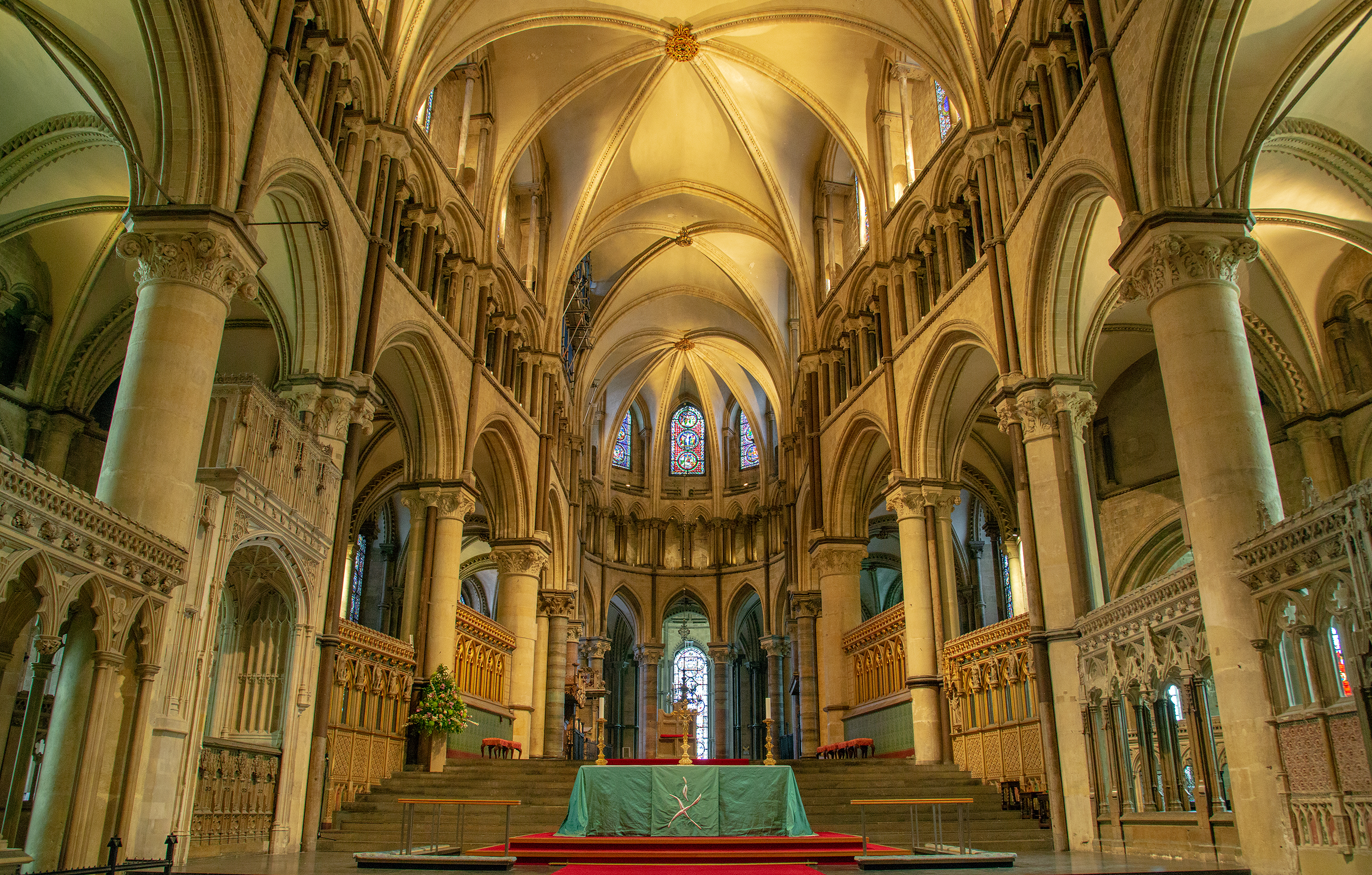 The altar area (chancel) 2018